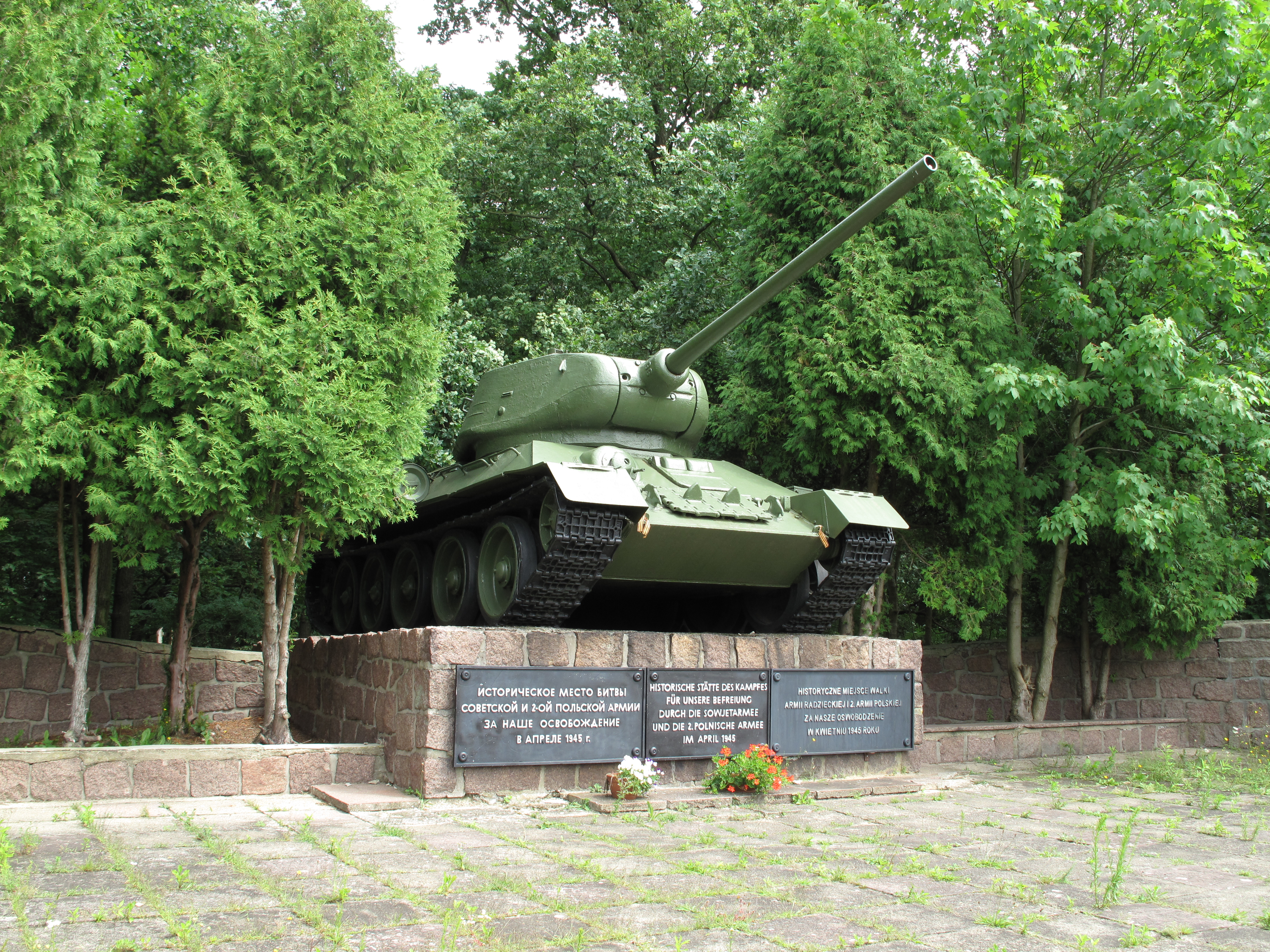 Memorial to the war fightings in 1945; Square design; Historically significant; Soviet/Polish cenotaph; Tank T-34[1][2] as part of the memorial in Rothenburg/Oberlausitz; erected 1969[2] ↑ a b Panzerdenkmal in Rothenburg/O.L. ↑ a b c d Webseite der Stadt Rothenburg/O.L.